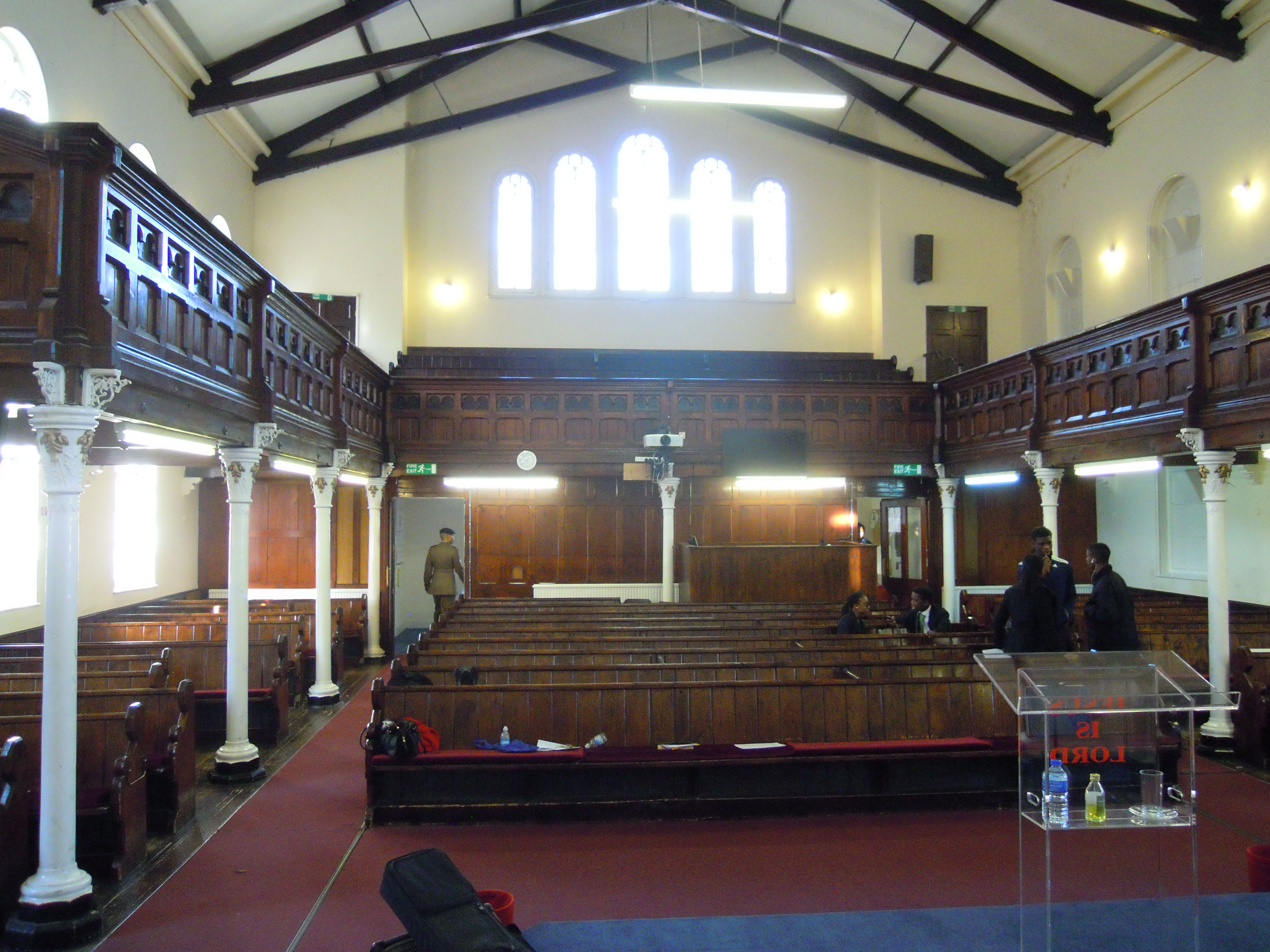 The interior of the former Presbyterian Church in Aldershot in Hampshire